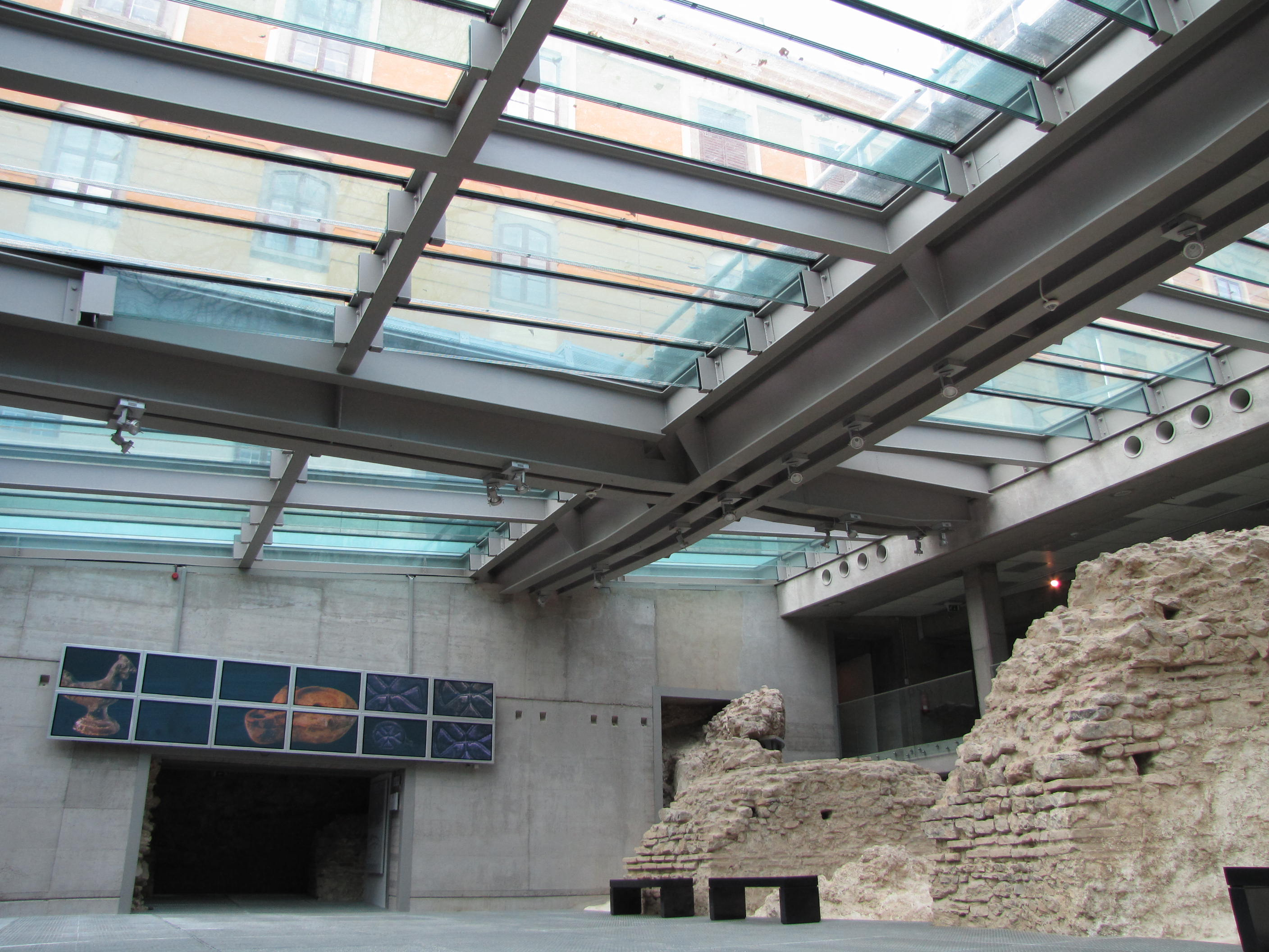 Cella Septichora, Pécs, Hungary. Architect: Zoltán Bachman, 2006.